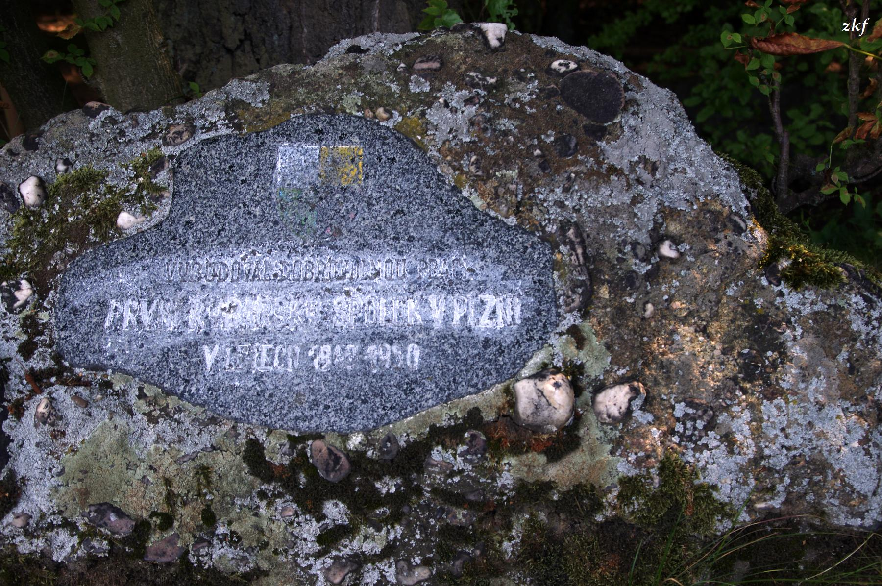 Memorial plaque at the pond Strženka